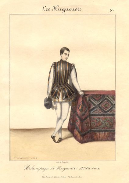 Maria Flécheux in the role of Urbain in the premiere of Meyerbeer's "Les Hugenots", 1836